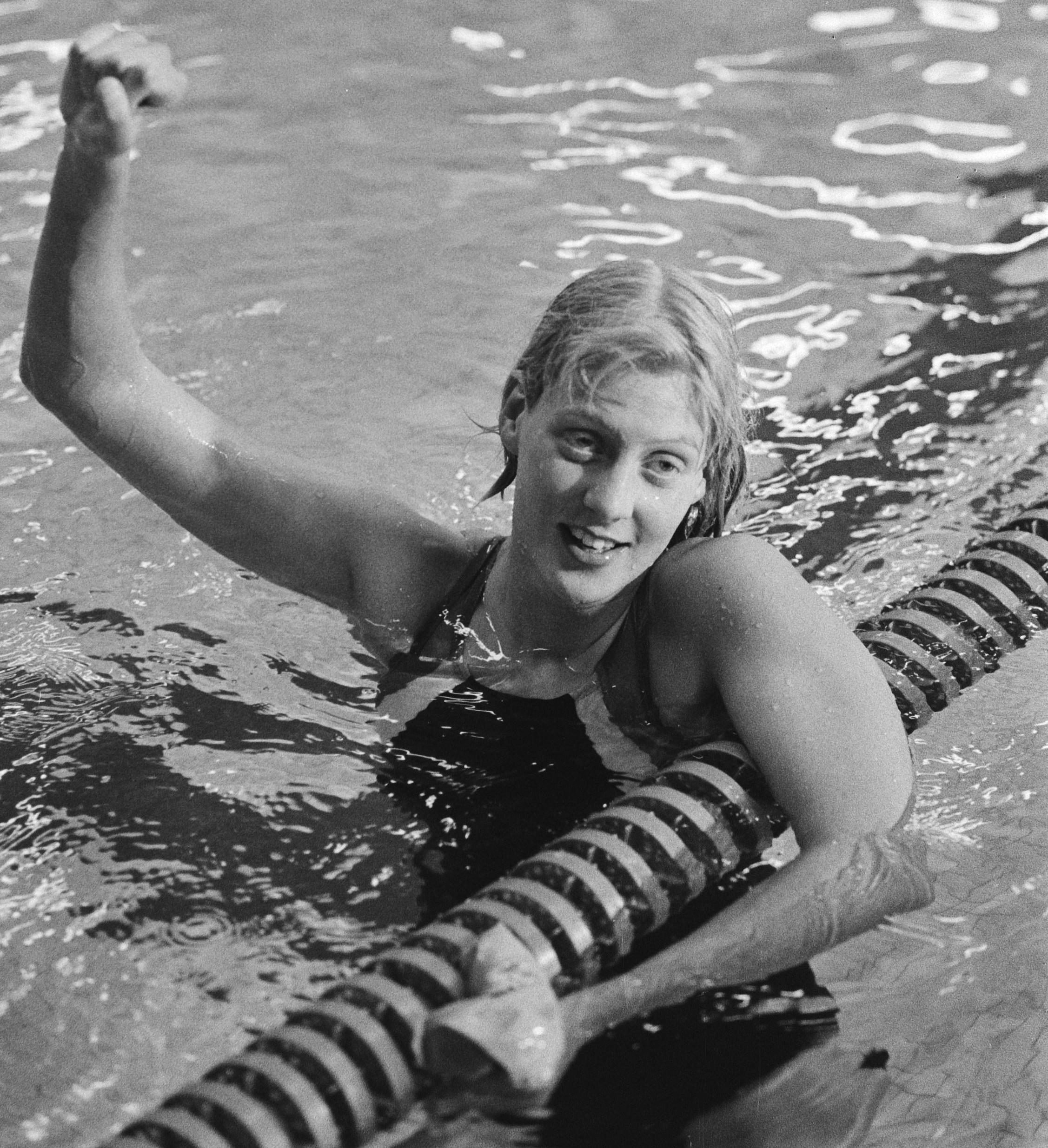 Internationale zwemwedstrijden: Speedo-meet Amersfoort 1981: Jolanda de Rover na haar prestatie blij in het water